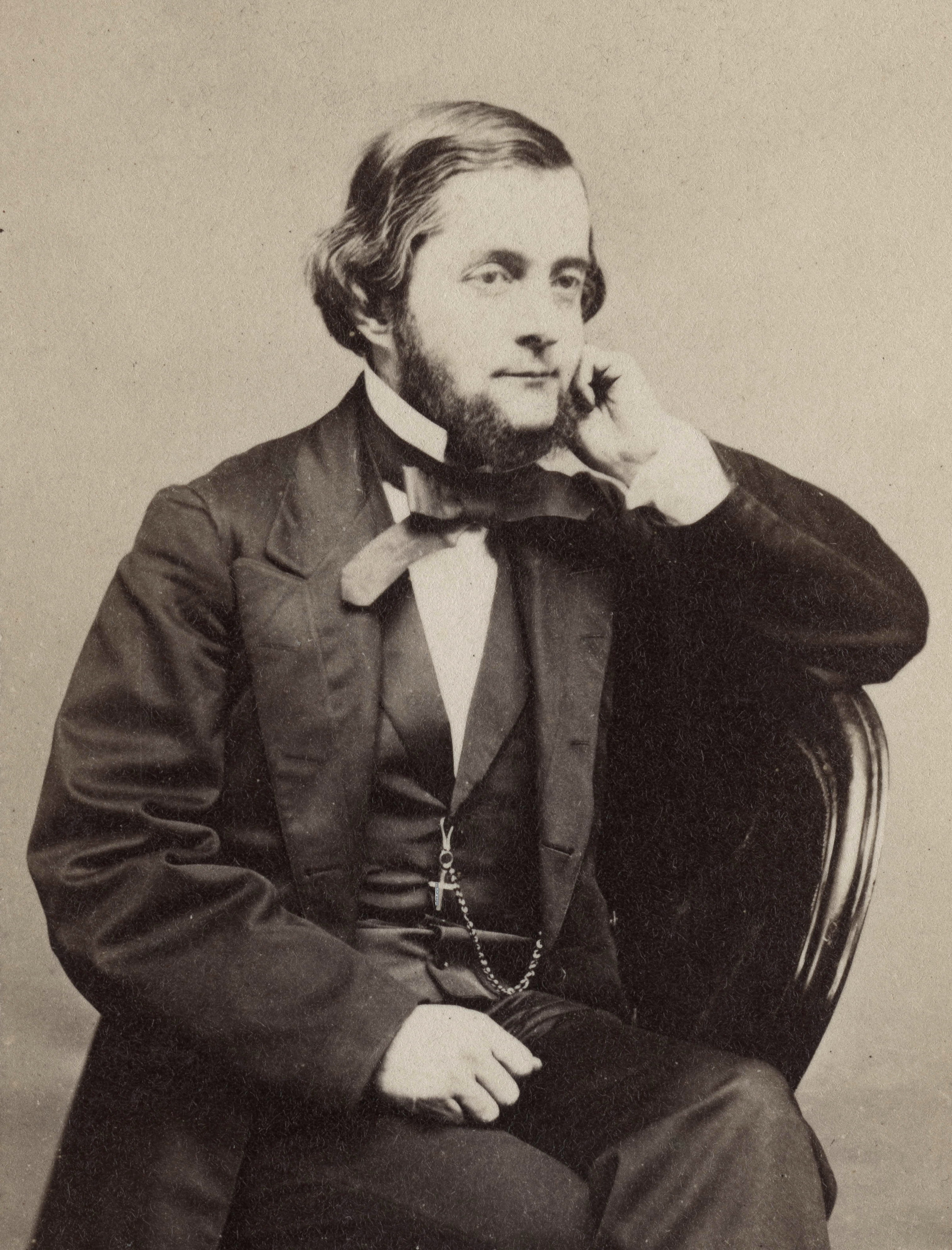 Josiah Parsons Cooke (1827-1904), Carte de Visite